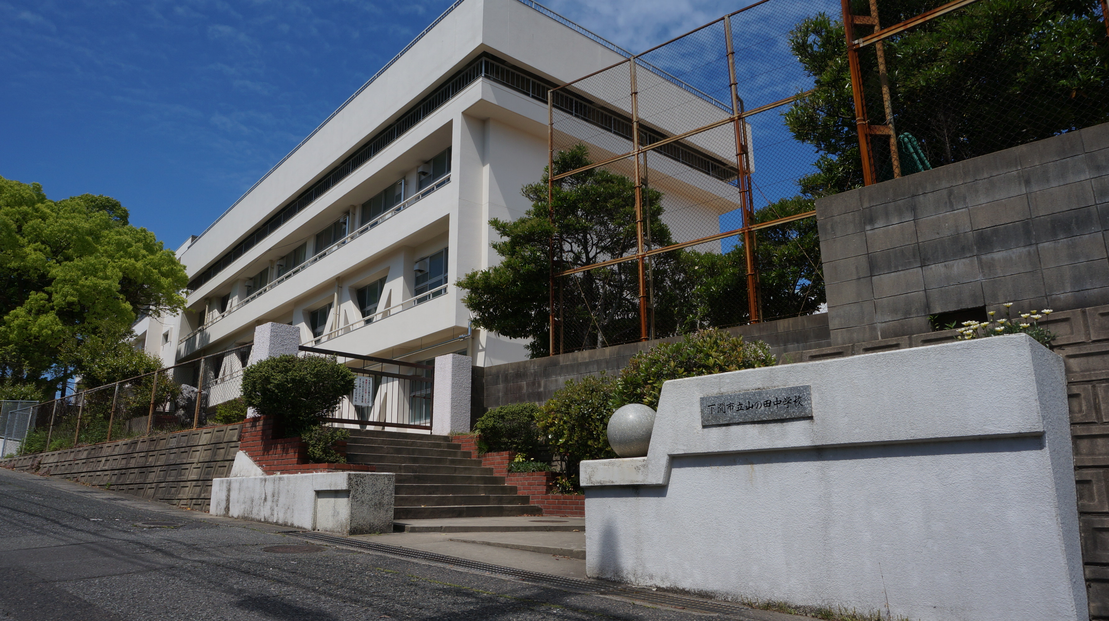 Yamanota junior high school, Shimonoseki-city, Yamaguchi prefecture, Japan